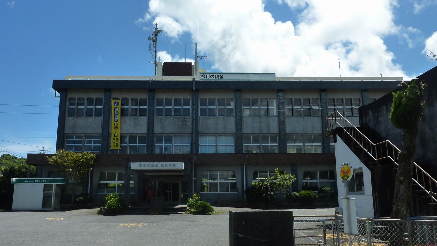 Ibusuki City Office Kaimon Branch (Former Kaimon Town Office - August, 2010)